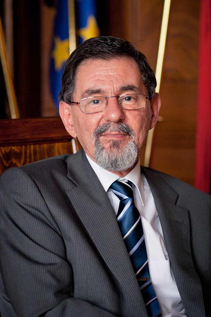 Ágoston Szél.